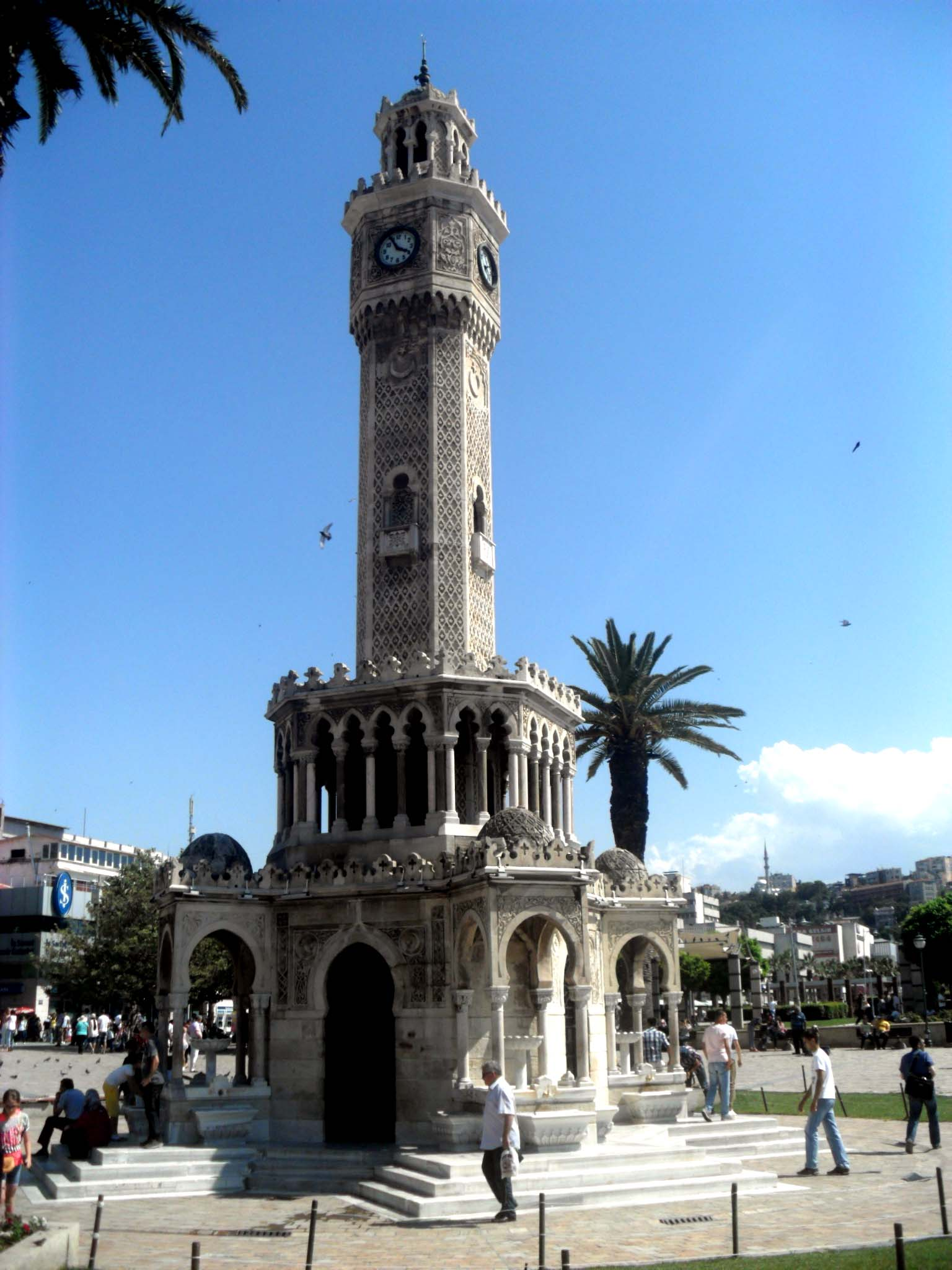 Clock Tower in Konak Square, İzmir, Turkey